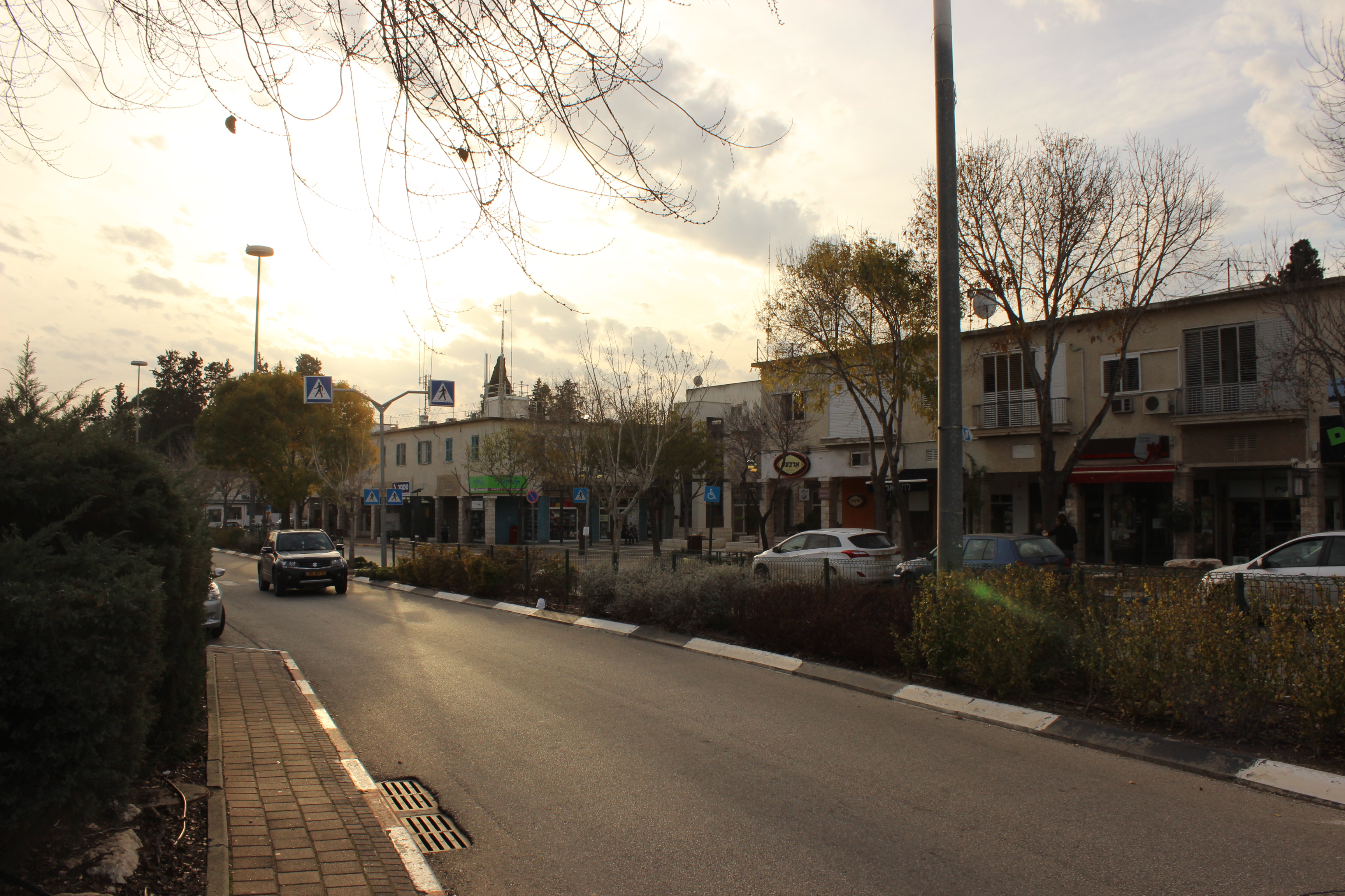 The town of Kiryat Tivon, Haifa district, Israel.